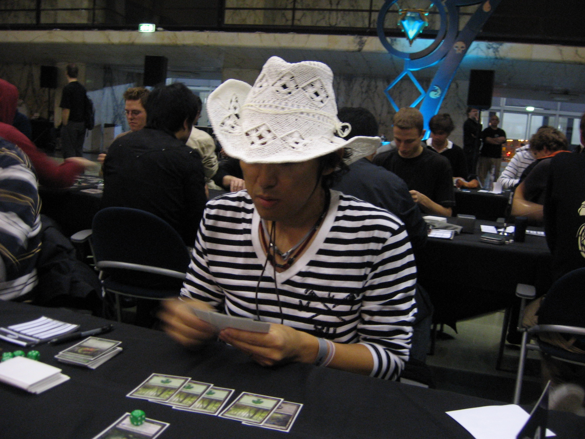 Tsuyoshi Ikeda (Japanese Magic: The Gathering pro player) playing at the 2009 Magic Worlds